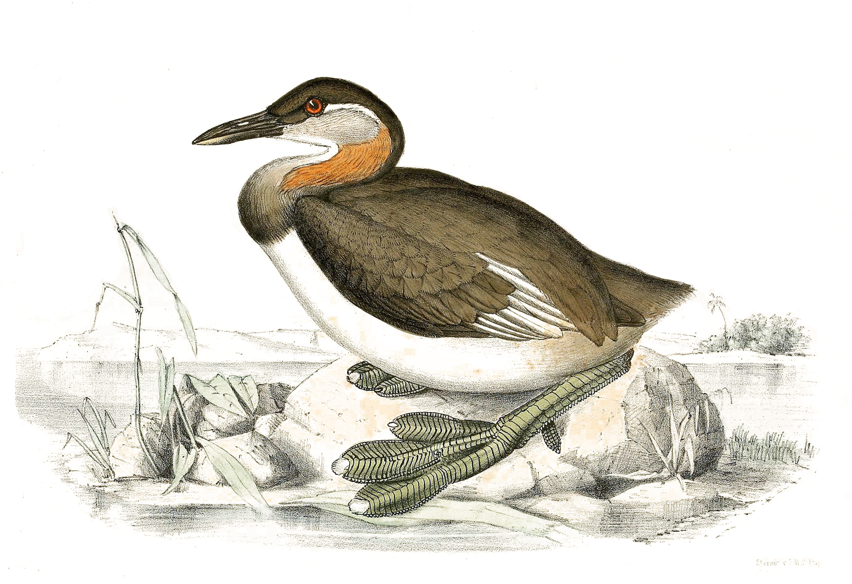 Podiceps pelzelni = Tachybaptus pelzelnii (Madagascar Grebe)